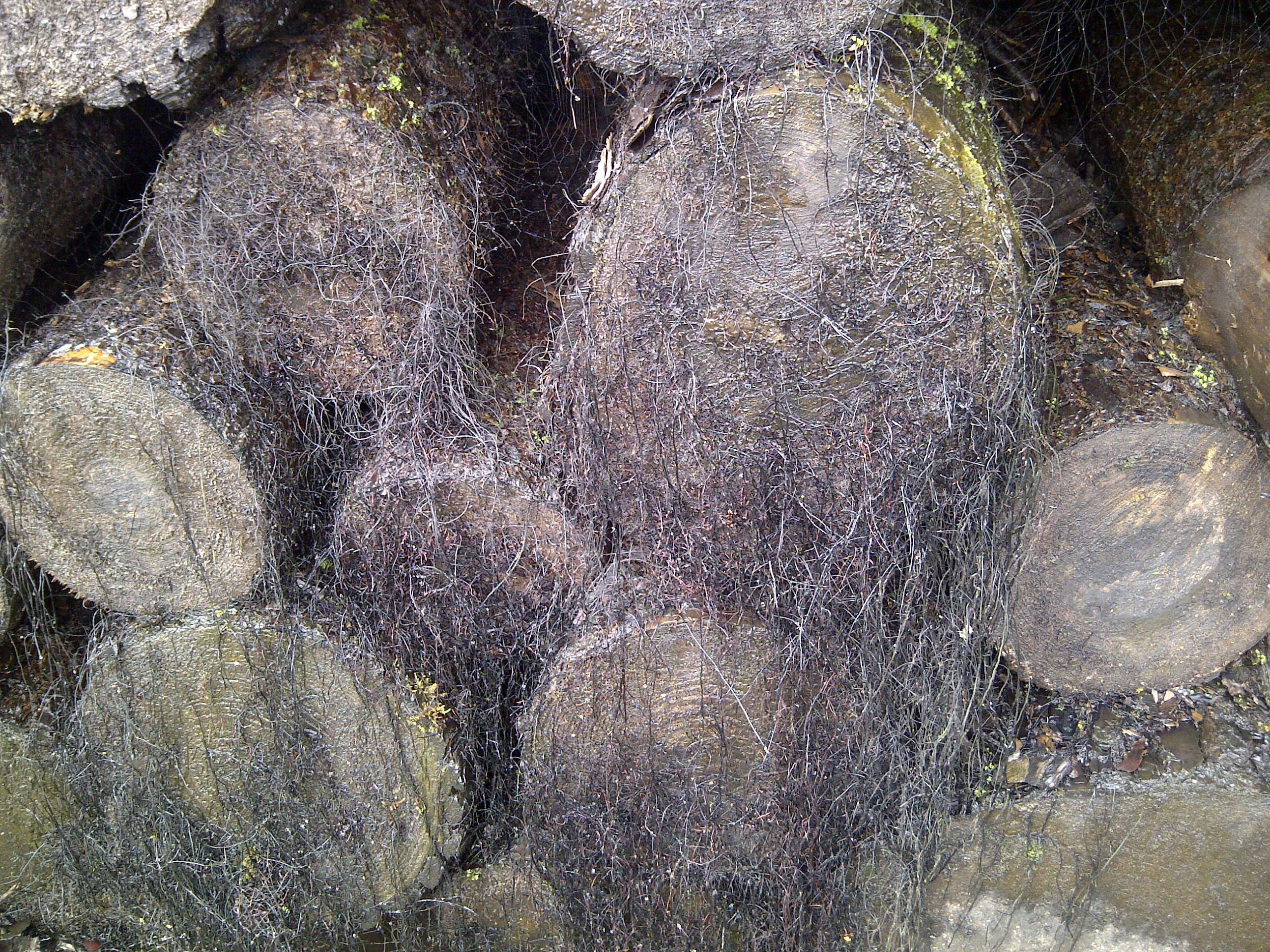 Armillary, on pine logs, in Aquitaine, after three years of storage under water.